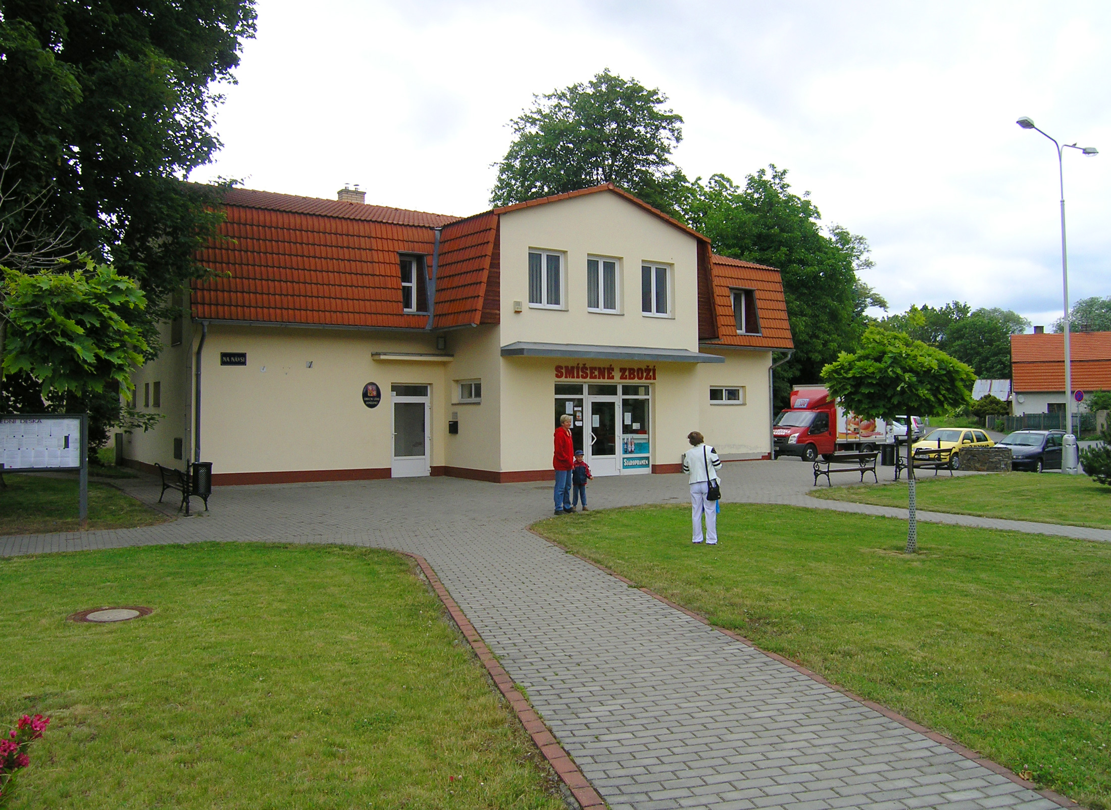 Municipal office in Dobřejovice, Czech Republic